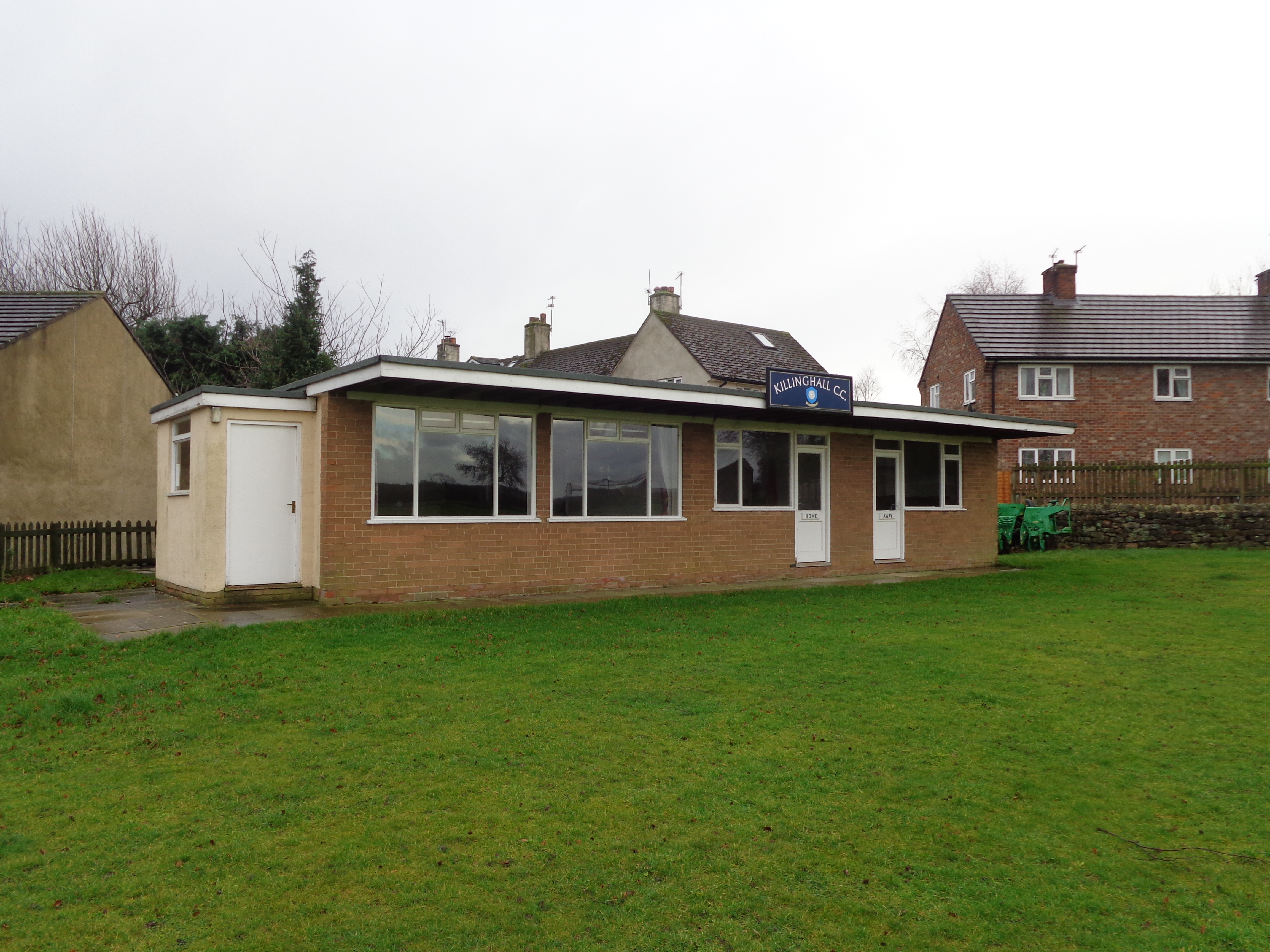 Killinghall Cricket Club, Otley Road, Killinghall, North Yorkshire. Taken on the afternoon of Saturday the 25th of January 2014.